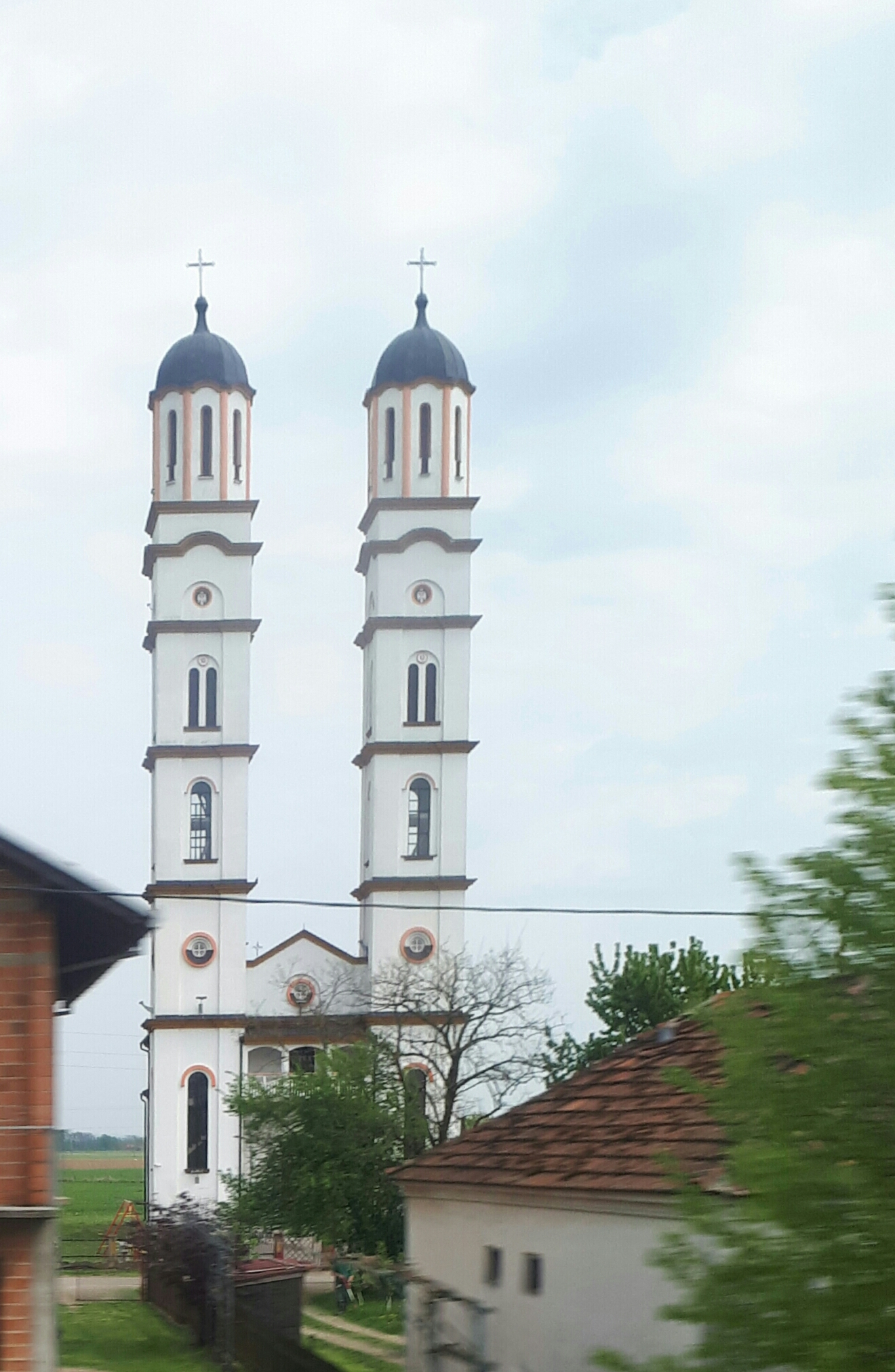 The Serbian-orthodox church St. Sava in the village of Nova Topola, Municipality Gradiška, Republika Srpska, Bosnia and Herzegowina